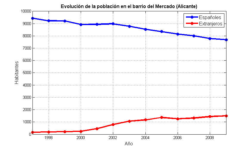 Population of Mercado district, Alicante.